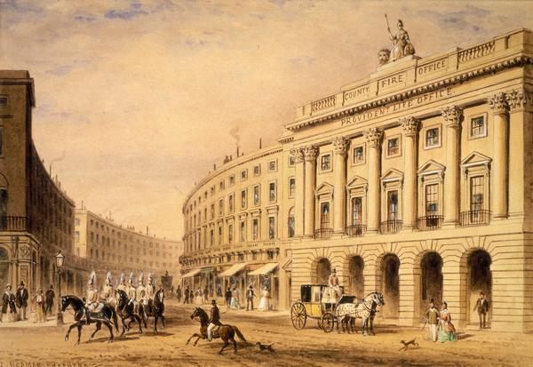 The fire office building incorporating the Provident Life Office, at the lower end of Regent Street as seen from Piccadilly Circus.